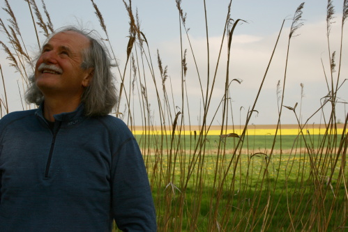 Jan Ságl photographer